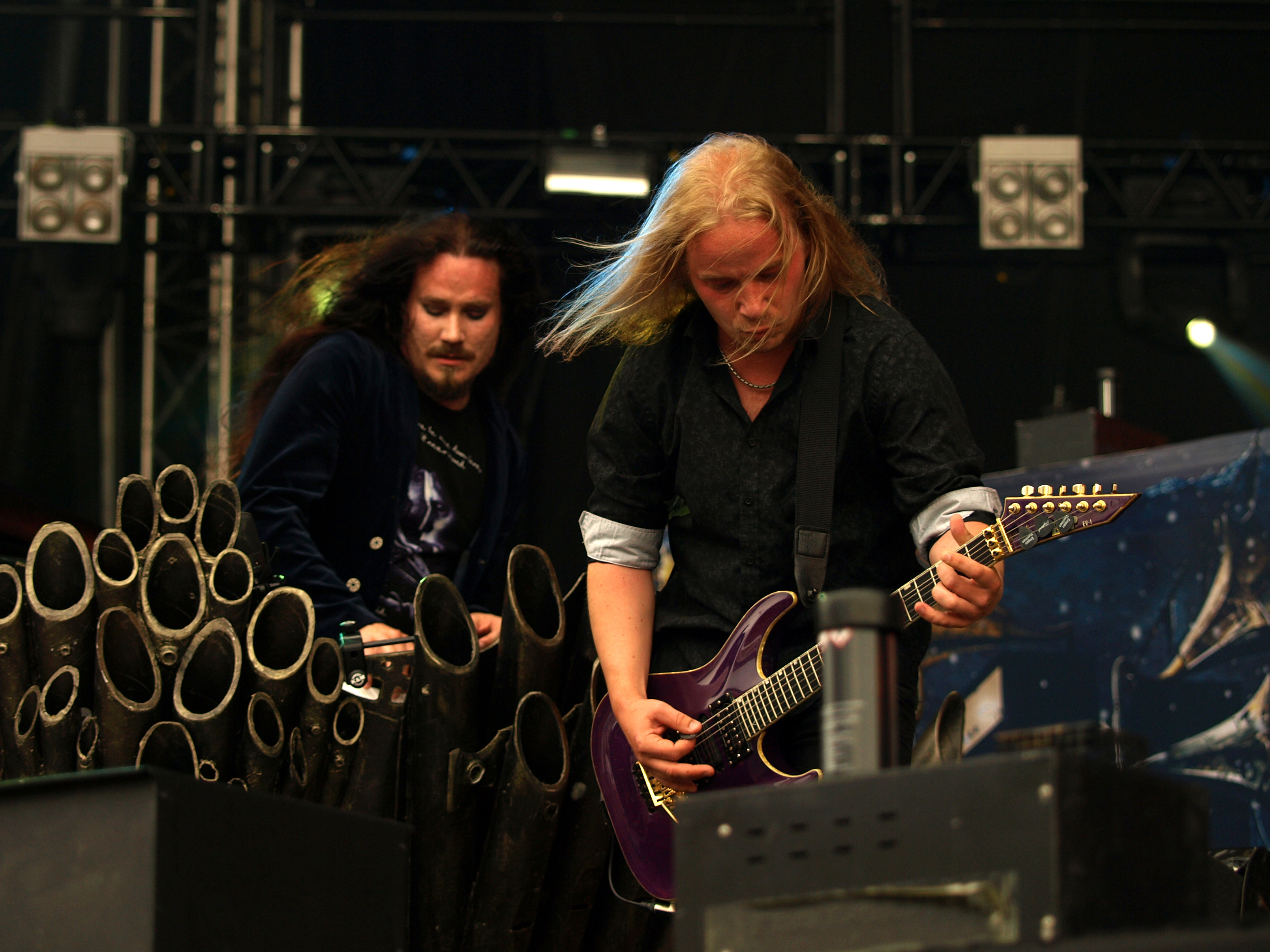 Finnish band Nightwish at Tuska Open Air 2013